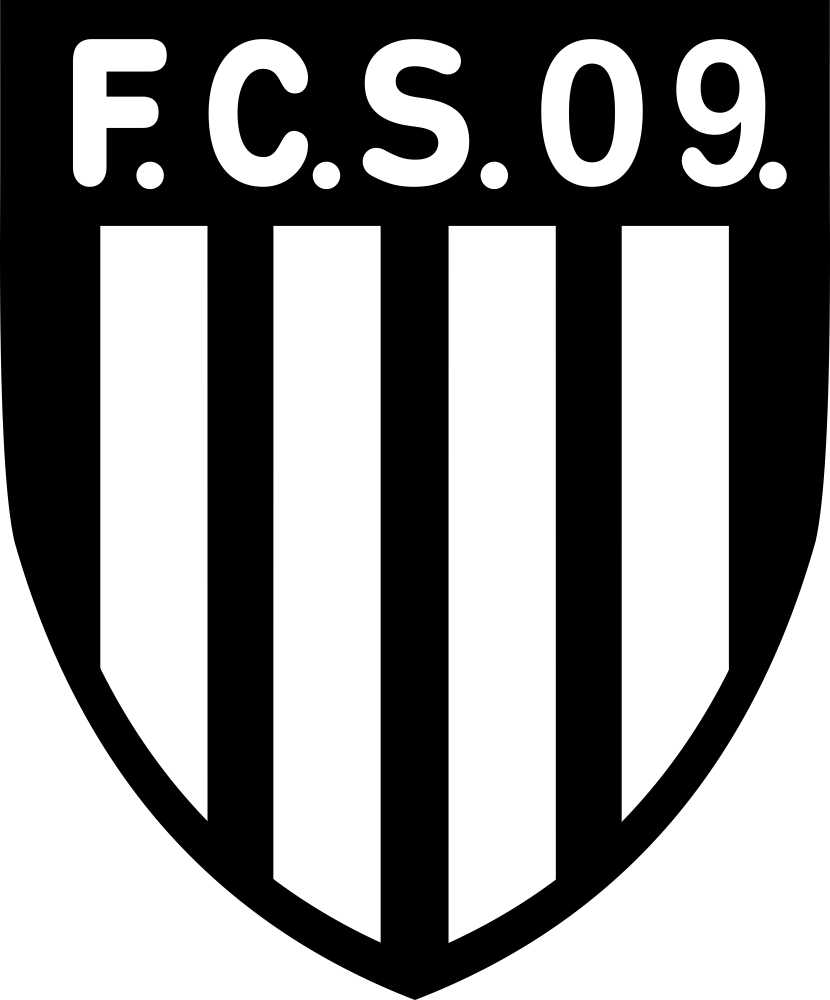 Logo of former german football club FC Salzwedel 09 (1909-1945)